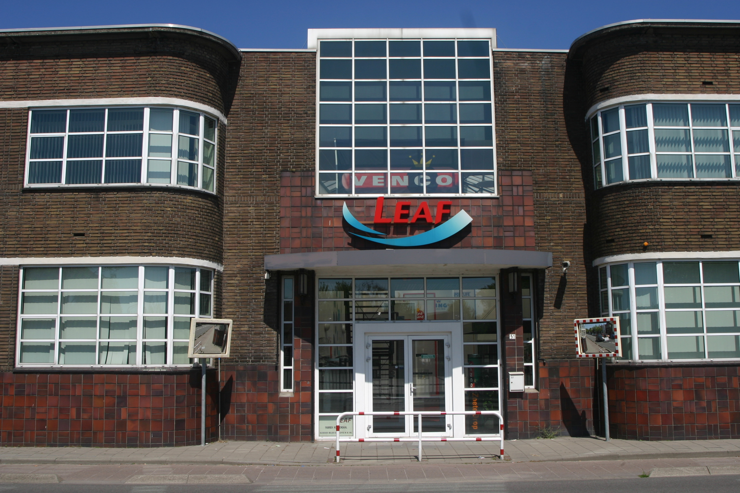 Entrance to the Red Band / Venco / Leaf factory, Spoorstraat 51.